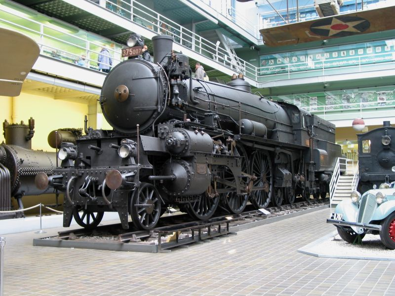 Czech locomotive 375.007 (former Austrian 310 class)